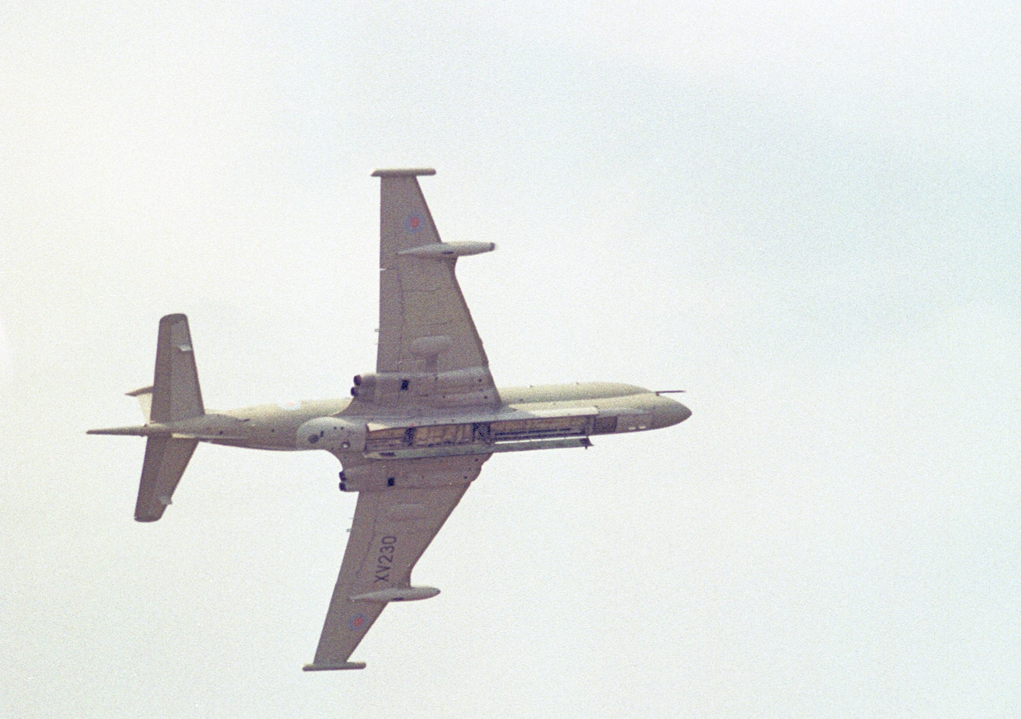 Air Tattoo International, RAF Boscombe Down - UK, June 13 1992.